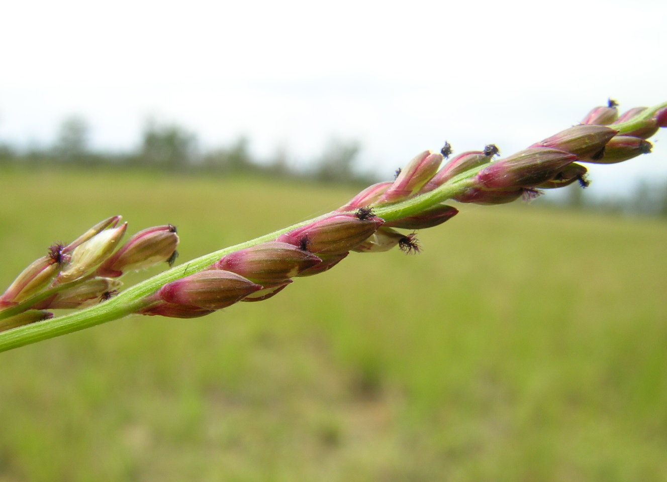 Flowerheads are a narrow primary axis of racemes (4-20 cm long); with the racemes pressed against the main stem. Spikelets are 2.5-3.8 mm long, oblong, unawned and 2-flowered; with a hairy fertile floret which is shorter than the upper glume and lower lemma by up to 1 mm.